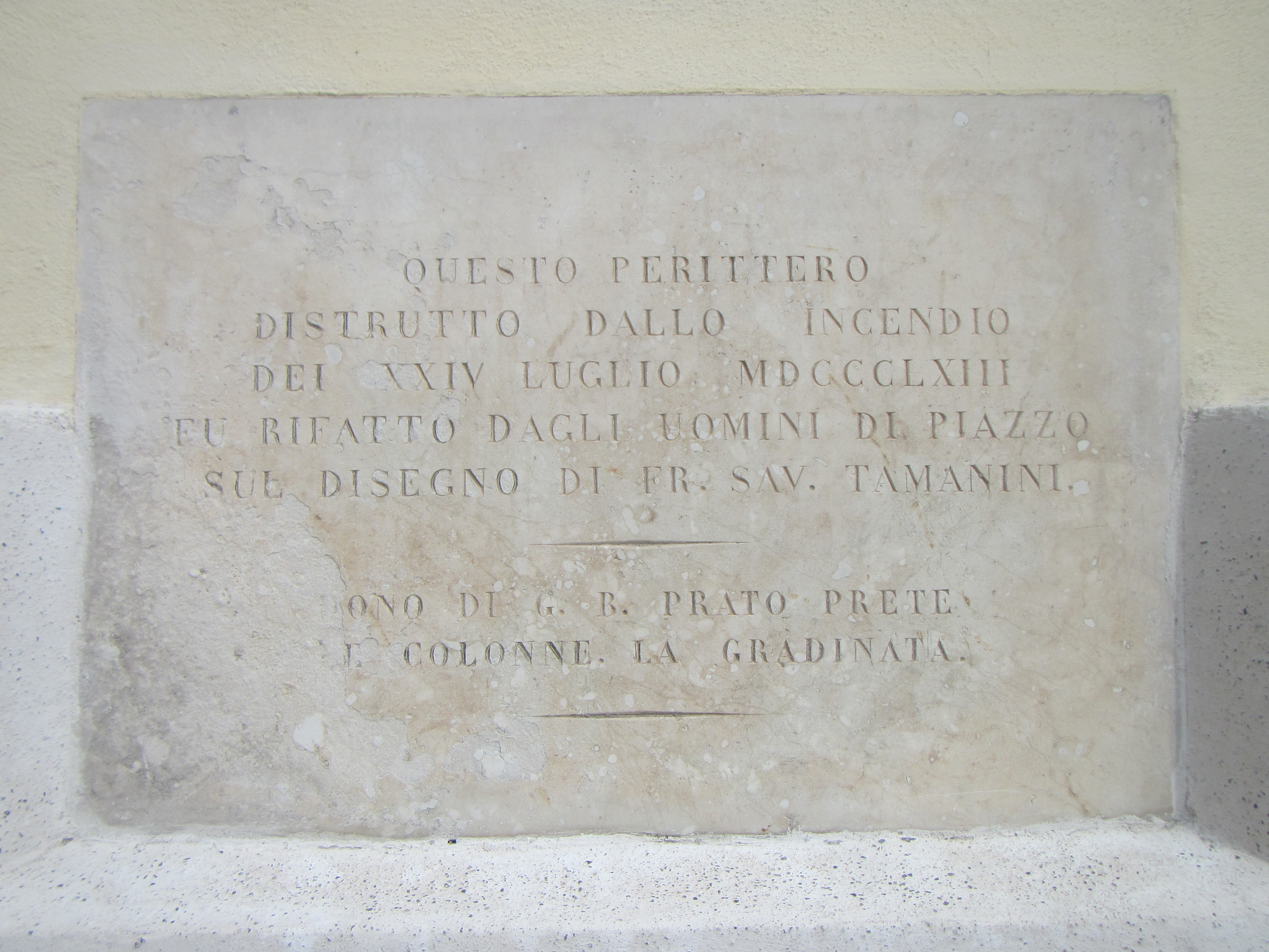 Piazzo, Segonzano - church of the Immaculate - commemorative stone of the fire that damaged the church in 1863, and of the donation of the new stairs and columns by abbot Giovanni Battista a Prato